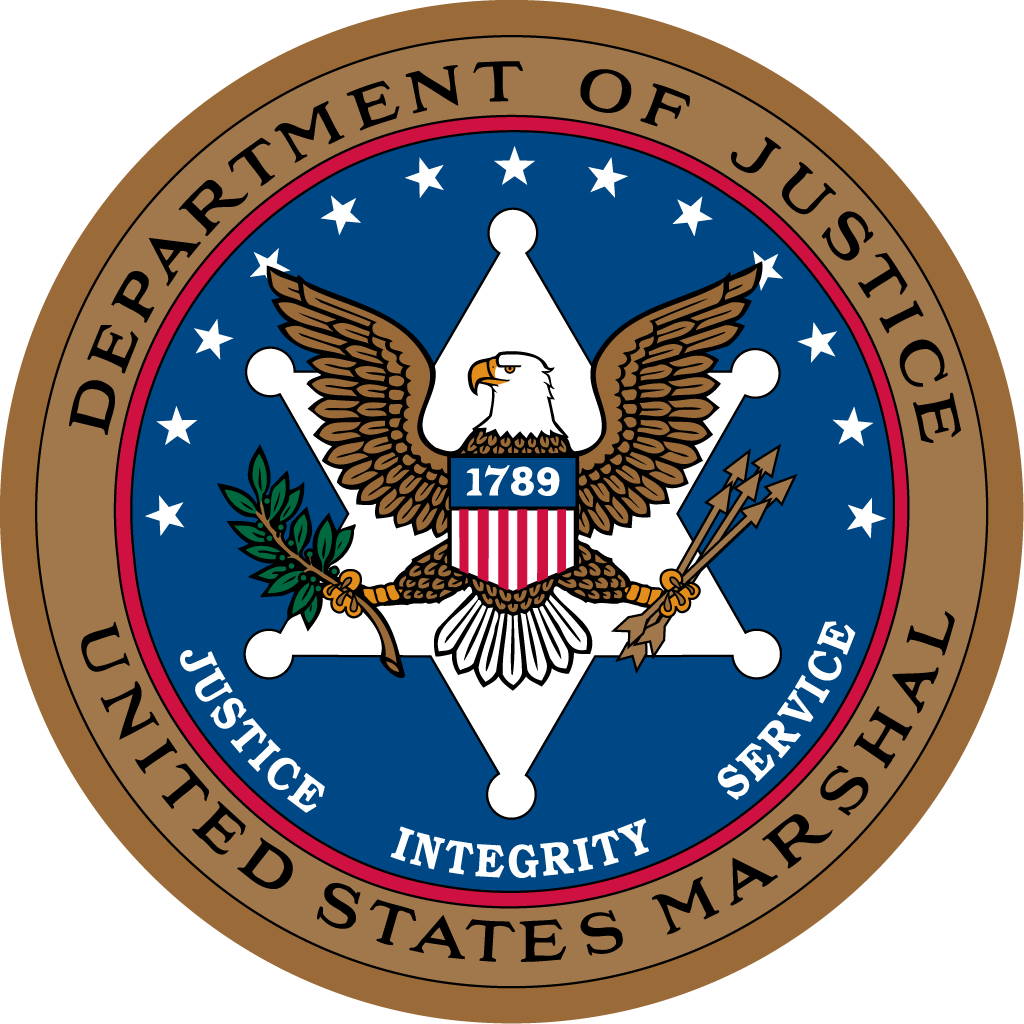 United States Marshal Service Seal